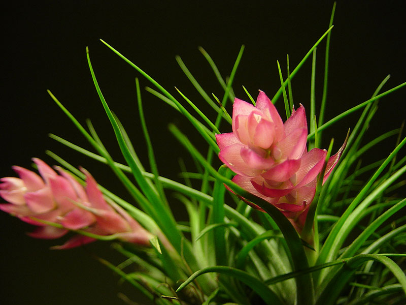 Tillandsia stricta, fam. Bromeliaceae.